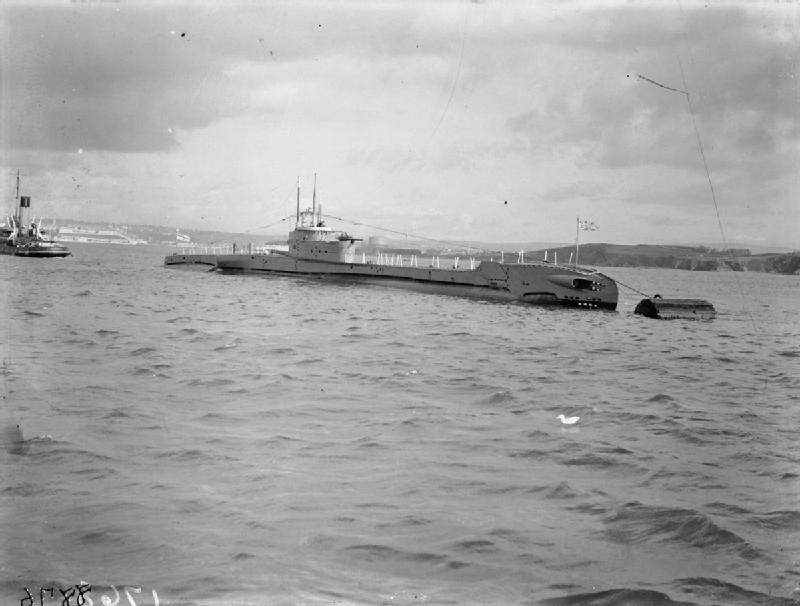 British T class submarine HMSM TANTALUS at a buoy in Plymouth Sound.